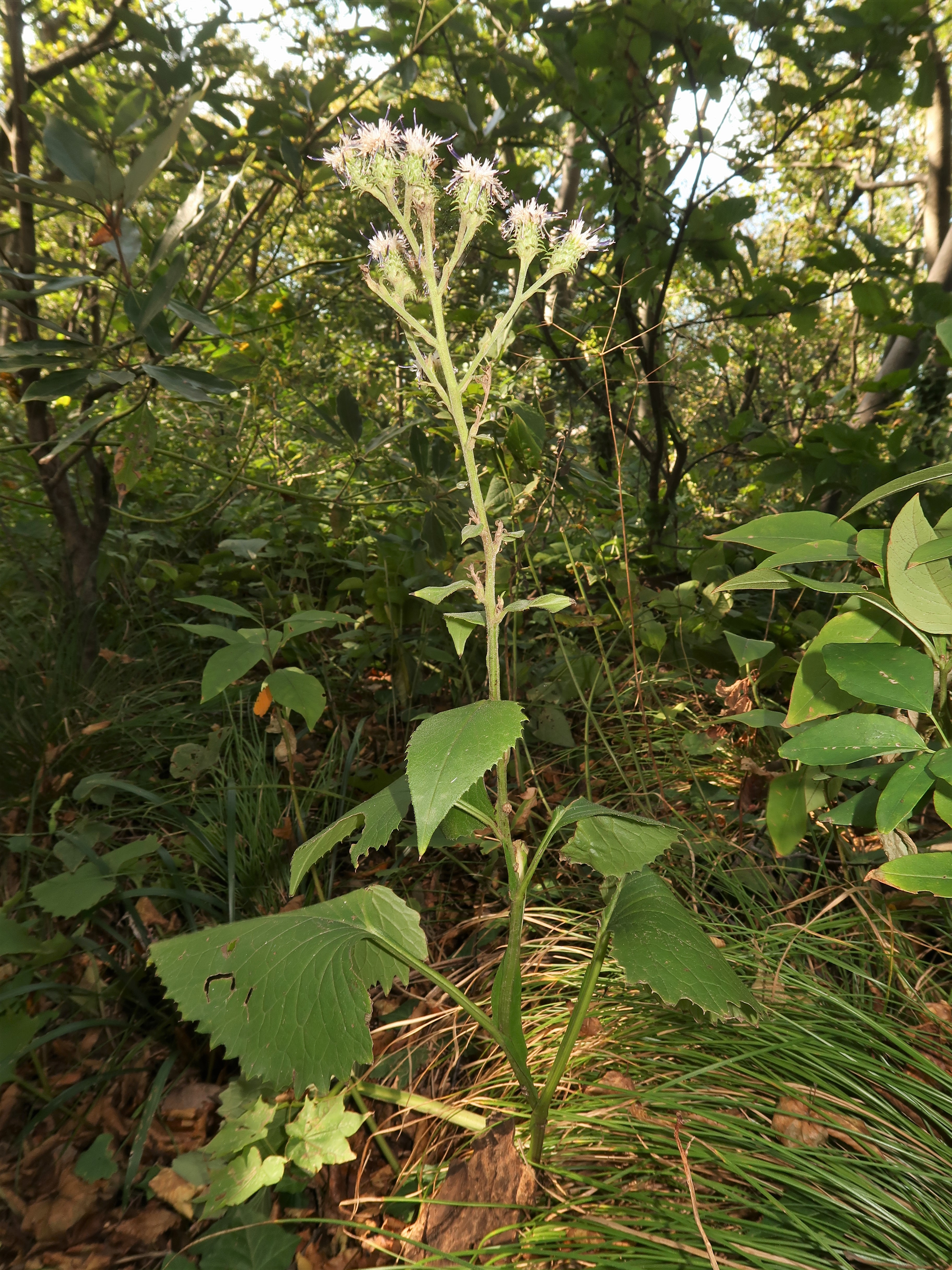 Saussurea hokurokuensis, Mount Kakuda-yama, Niigata pref., Japan